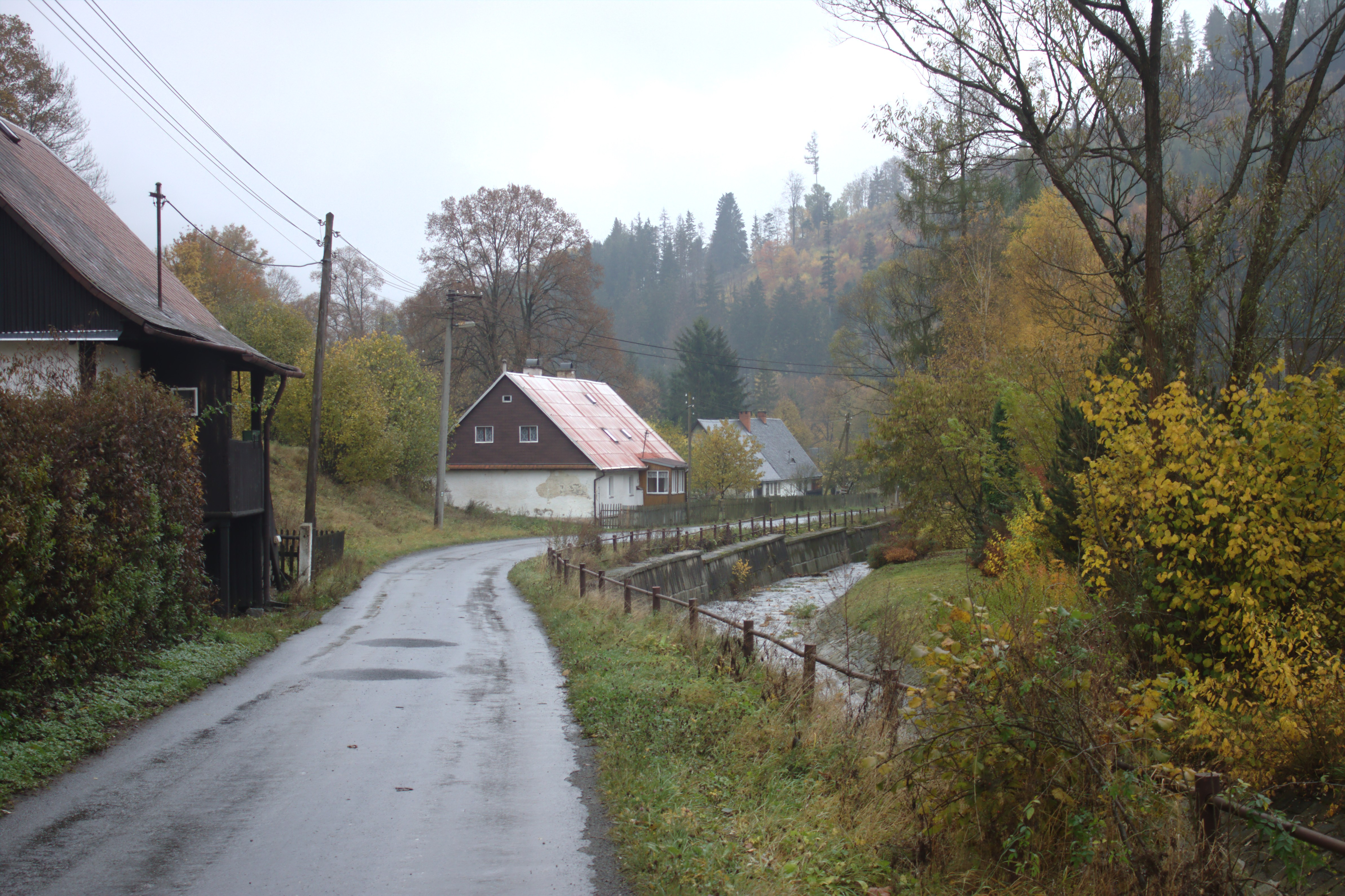 Buildings next to a river in the village of Komora, Moravian-Silesian Region, CZ